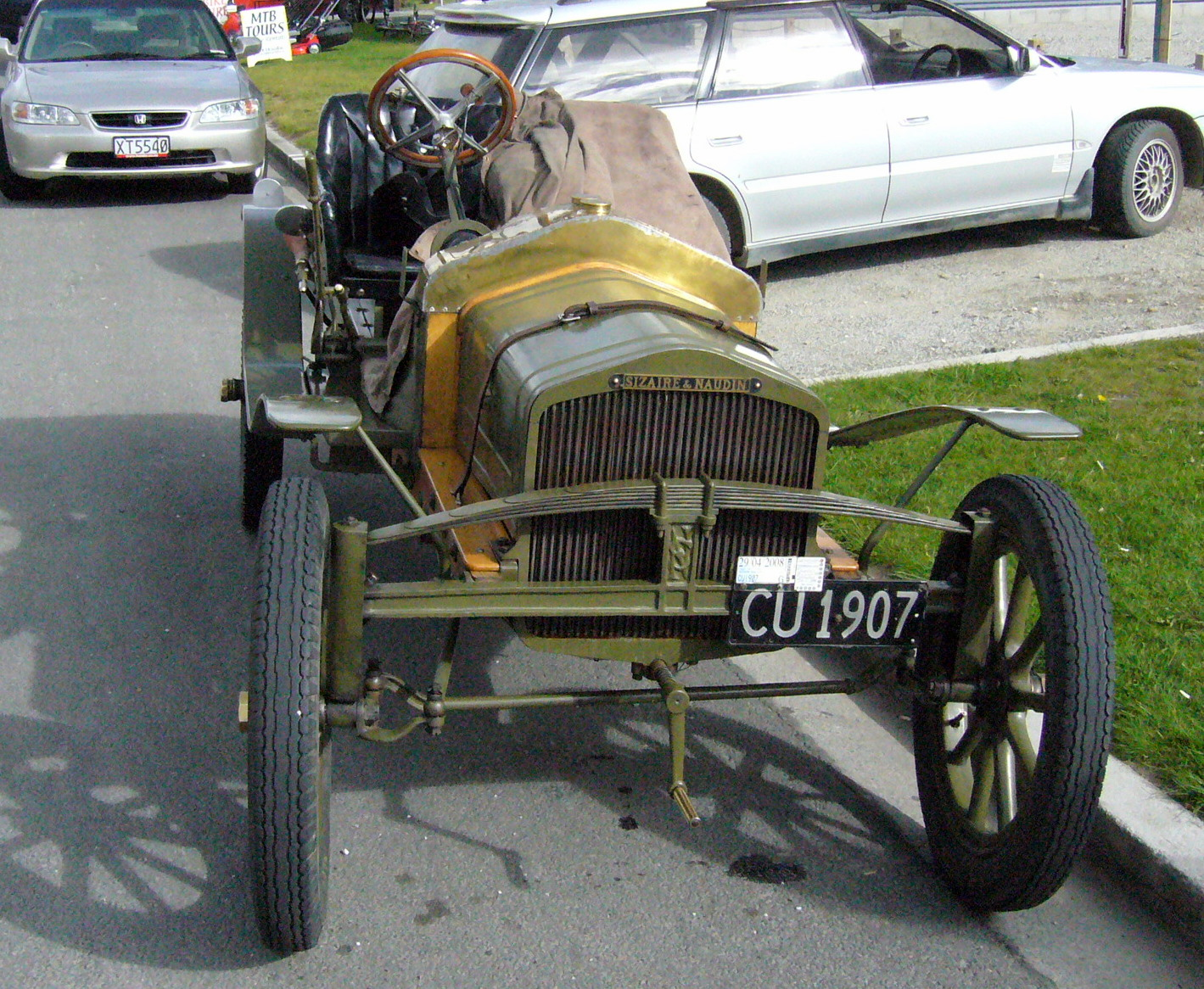 Single cylinder 1907 Sizaire & Naudin in daily use.